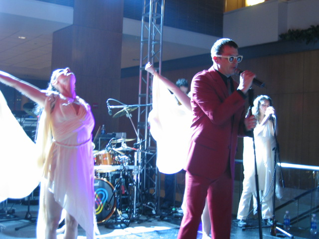 Fischerspooner at the Tribeca 2005 awards party.